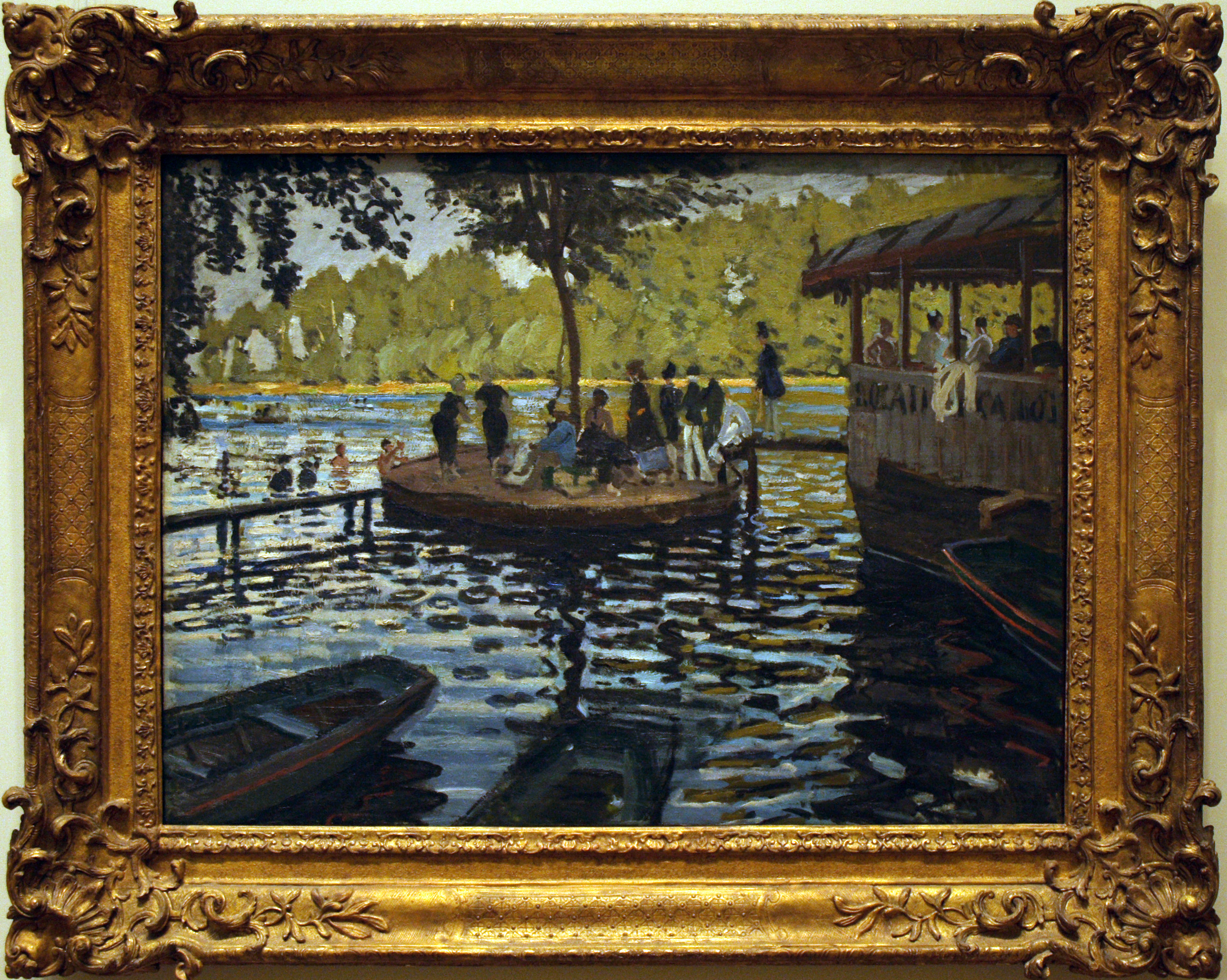 La Grenouillère, painting of Claude Monet in the Metropolitan Museum of Art, New York